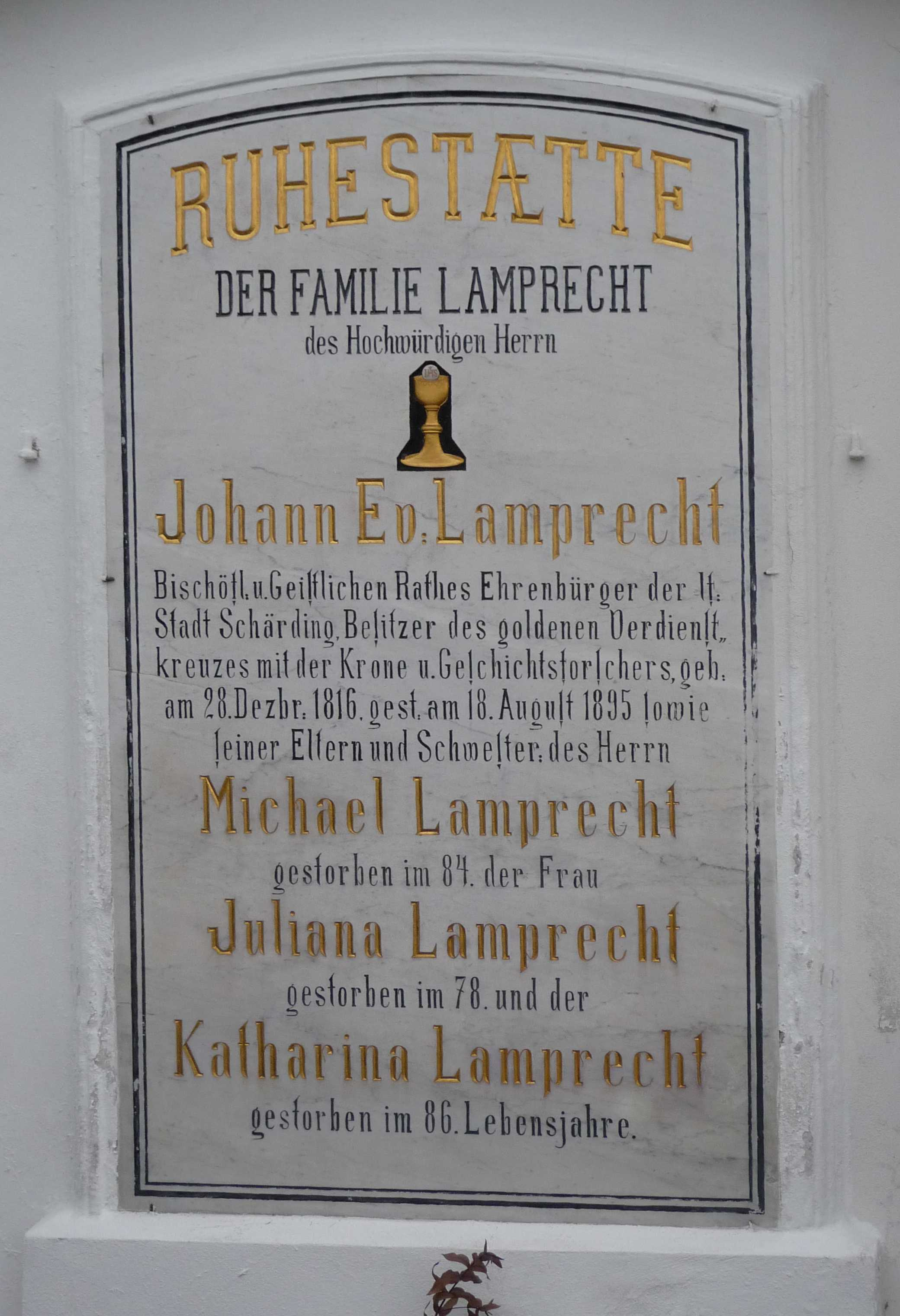 Tomb of Johannes Ev. Lamprecht at the Schärding cemetary.